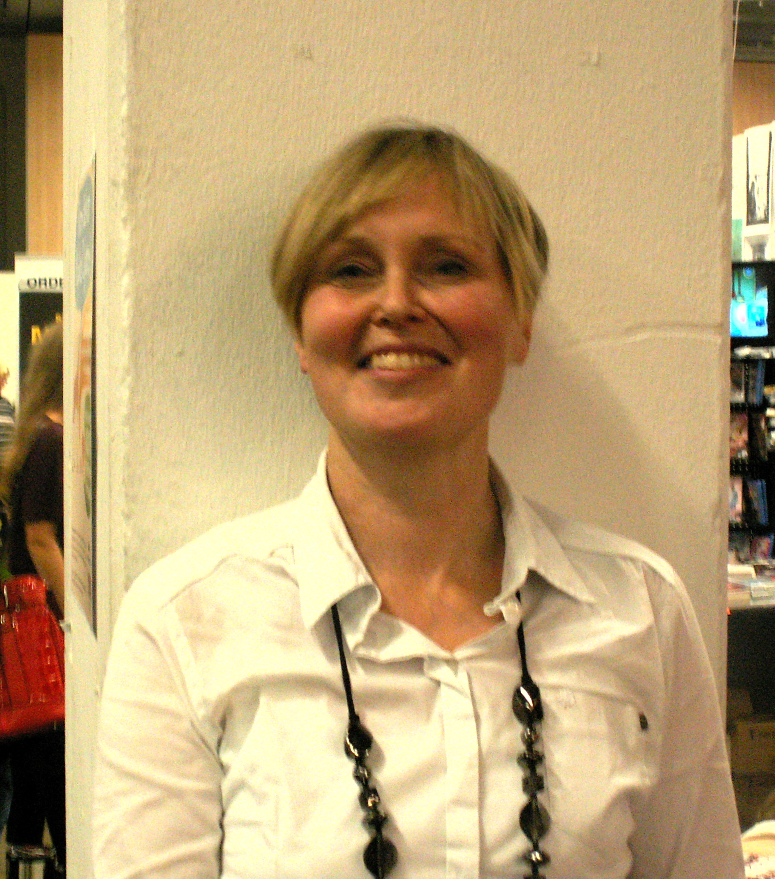 Swedish comics author and painter Anneli Furmark. At the Bok & Bibliotek book fair in Göteborg.